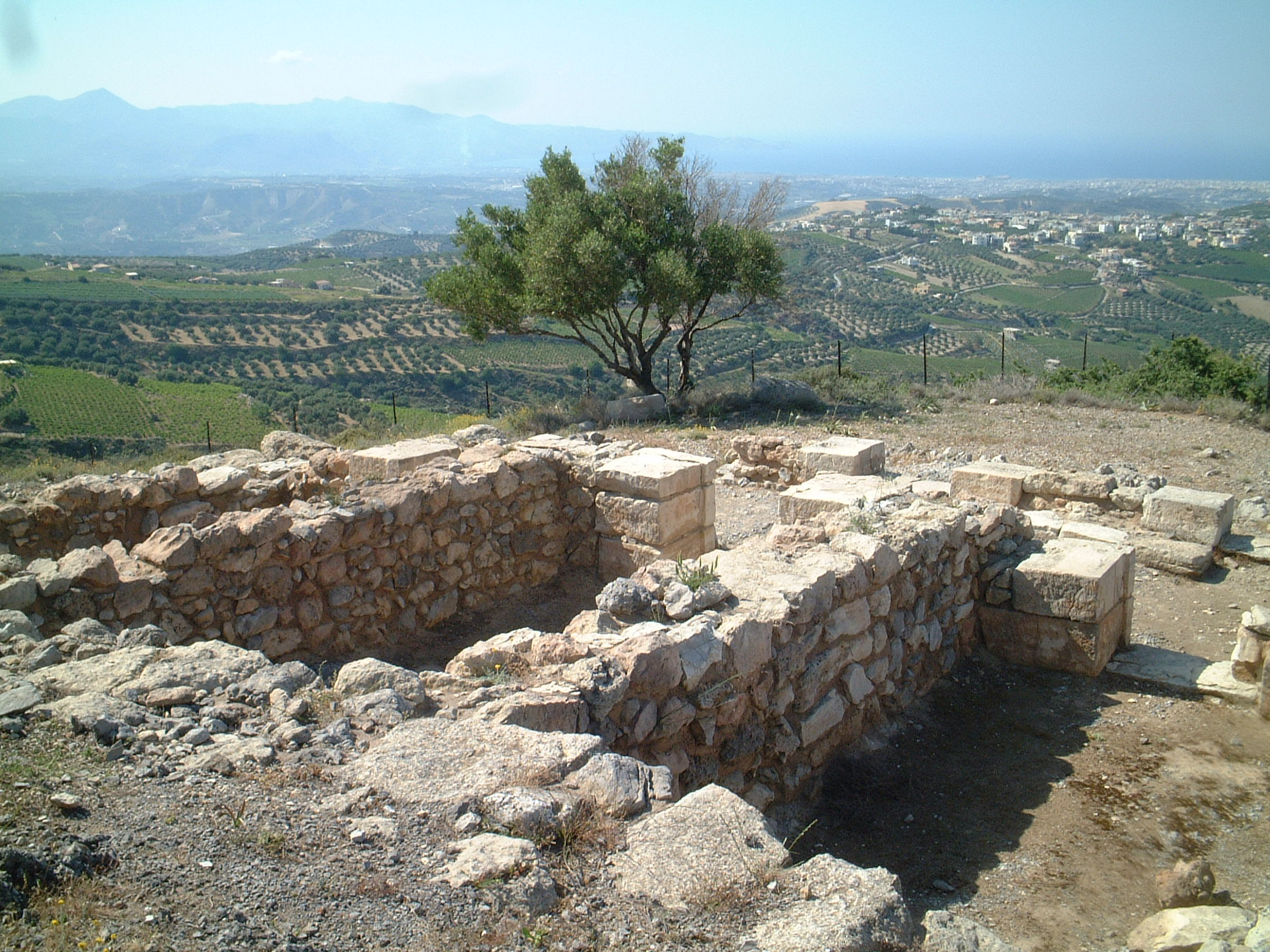 View on archeological site anemospilia on crete from south.